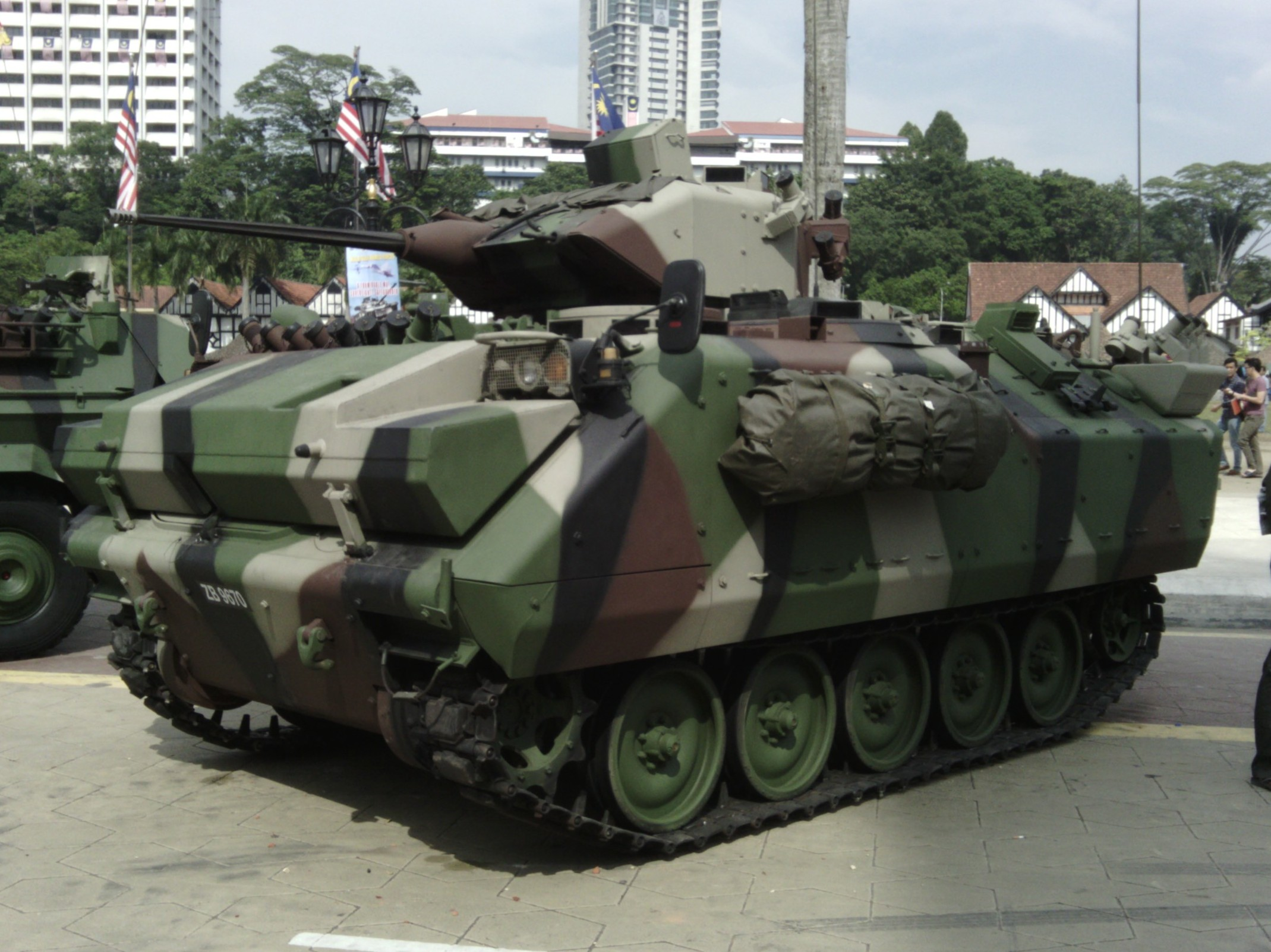 ACV-300 Adnan on exhibition at Merdeka Square.